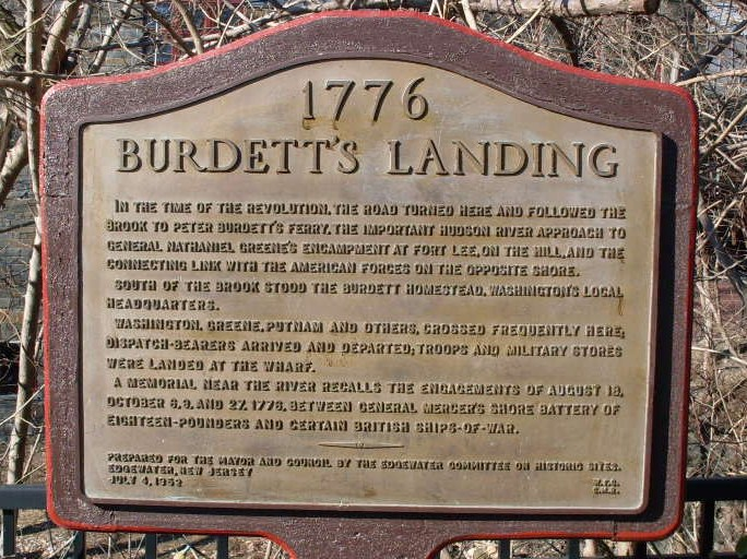 Edgewater, NJ City marker for Burdett's Landing located in Edgewater Colony